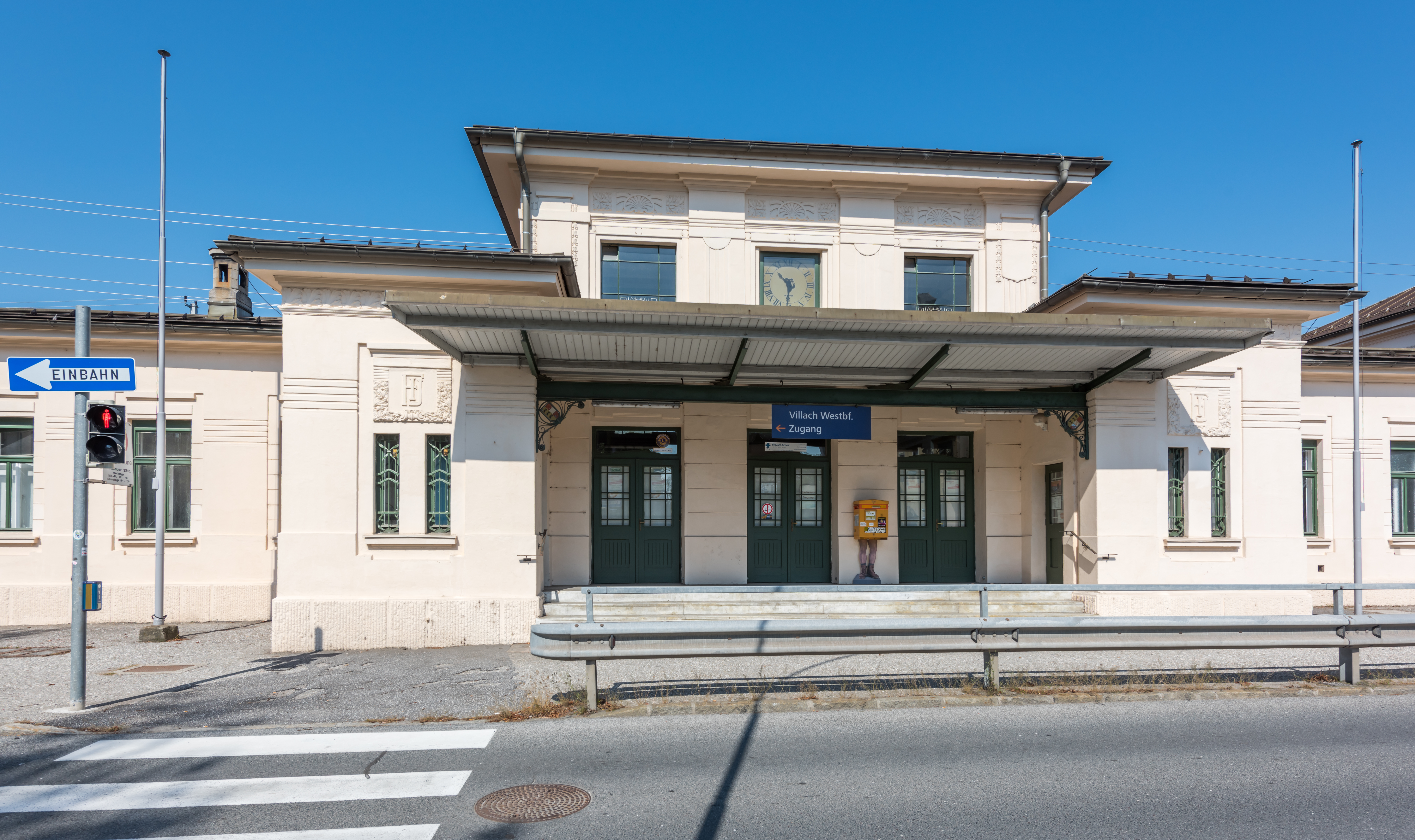 Station building of Villach Westbahnhof on Steinwenderstrasse #2, city Villach, Carinthia, Austria, EU